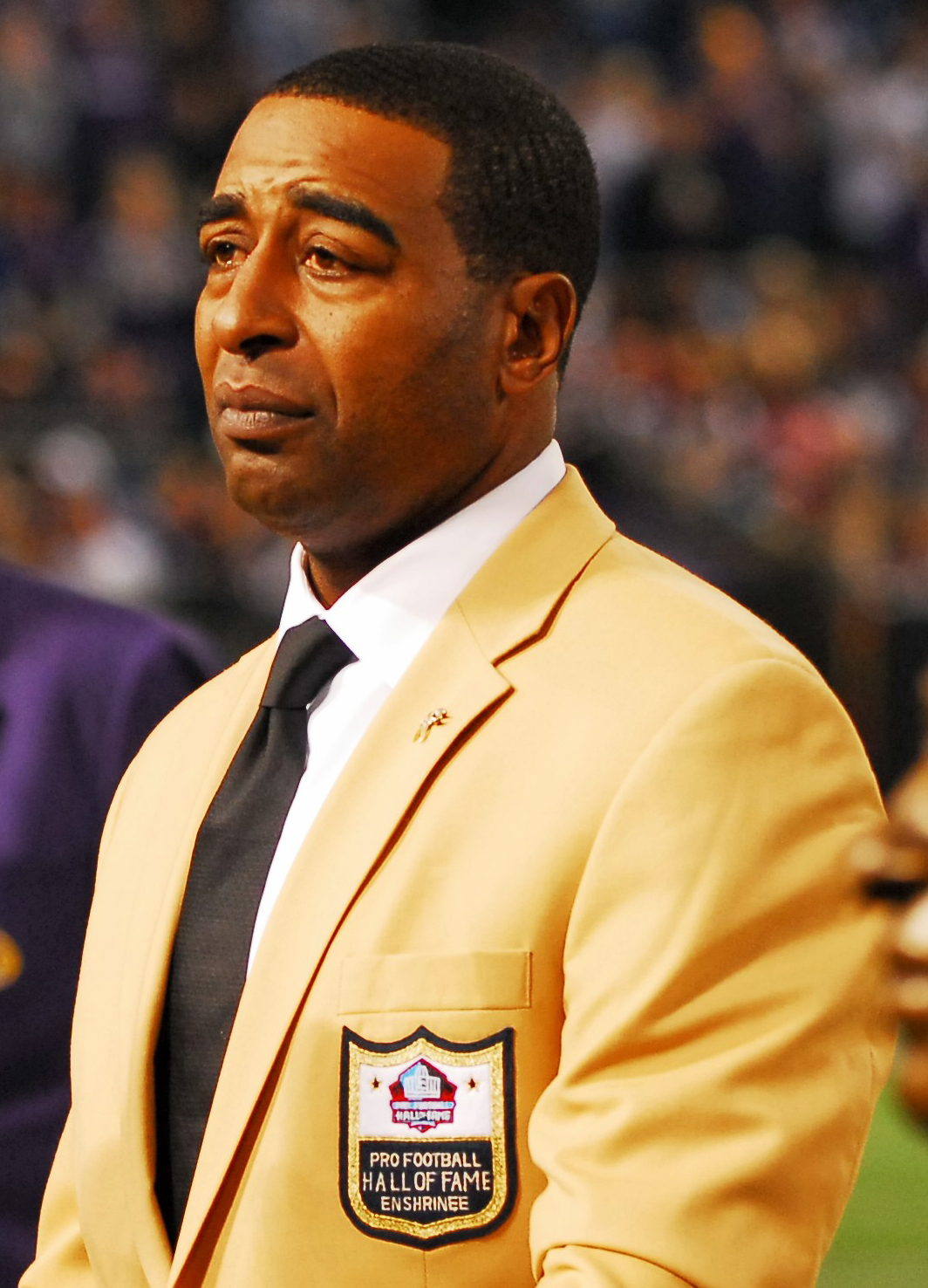 Former Minnesota Vikings WR during the PFHOF ring delivery ceremony